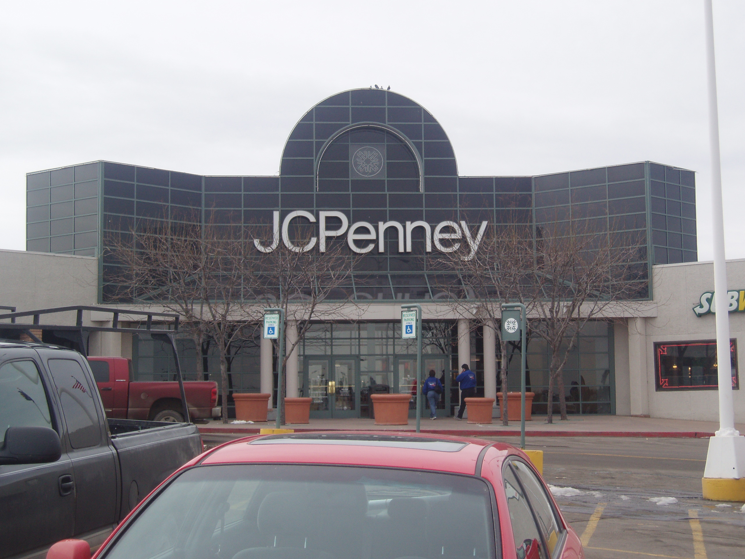 JCPenney store at the Holiday Village Mall in Great Falls, Montana, taken March 4, 2007.